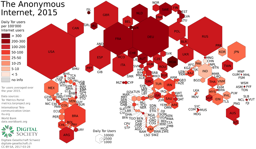 This cartogram illustrates users of Tor: one of the largest anonymous networks on the internet. An updated 2015 map can be found here.